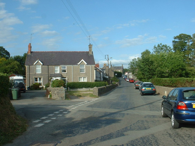 Efailnewydd village. Taken from B4415 looking east, towards A497.